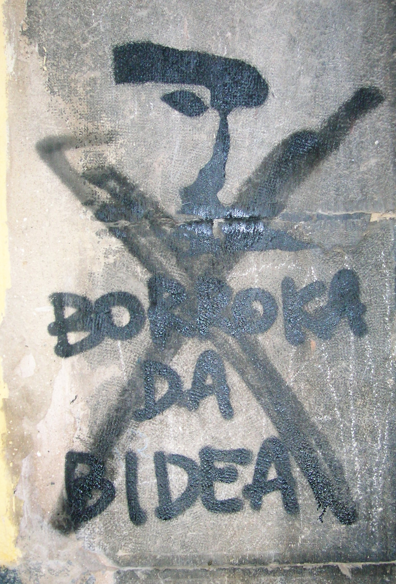 A stencil of a person in a white hood and black beret (typical attire of ETA members), and the slogan Borroka da bidea ("Fight is the way") neatly spraypainted in black. It's been crossed with an X in a different black spraypaint. On a wall in Balmaseda old town